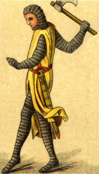 French knight (13th century)